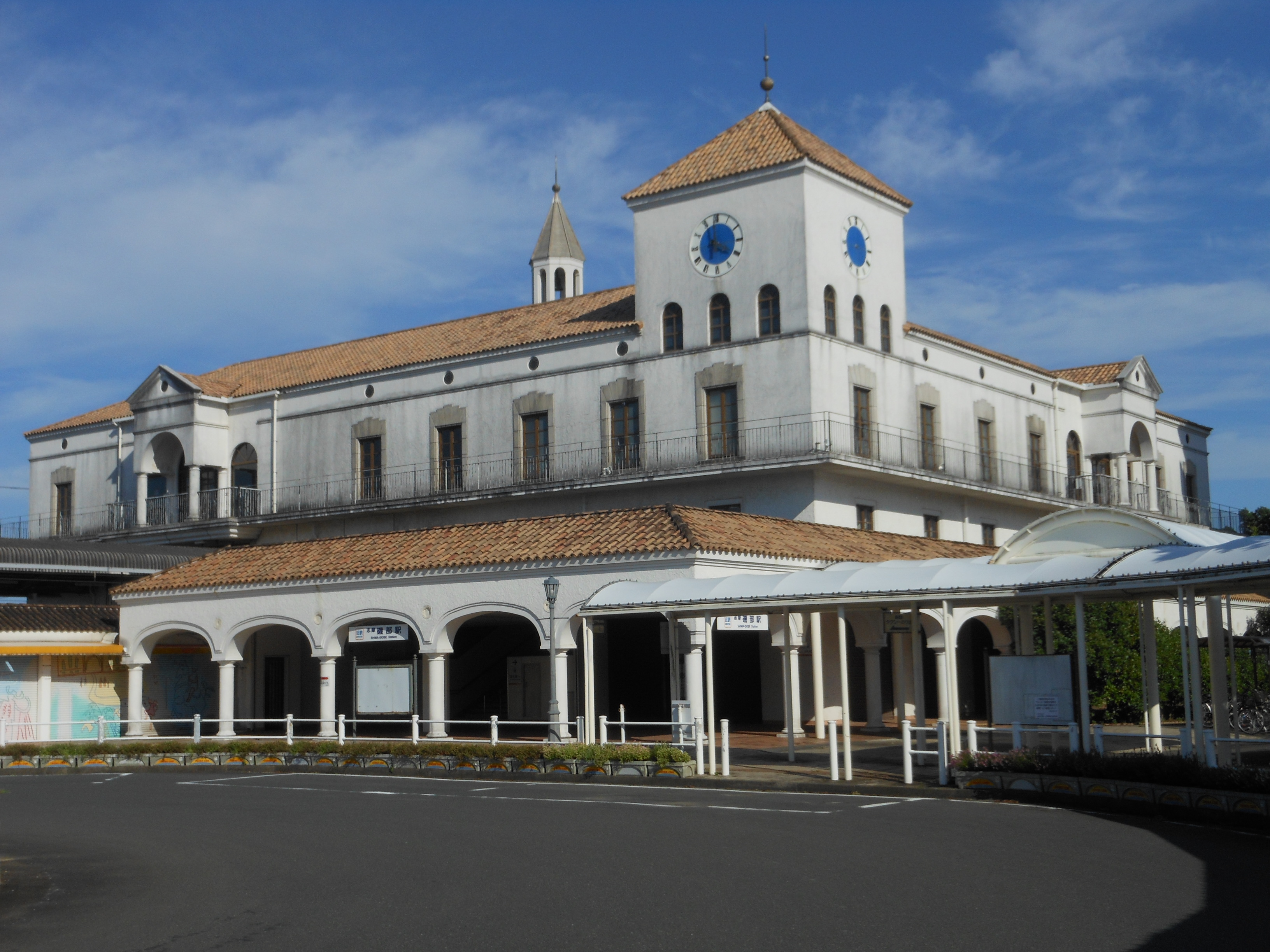 West exit of Shima-Isobe Station in Shima, Mie.